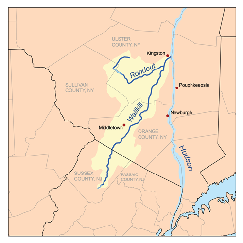 This is a map of the Rondout/Wallkill Watershed I made using USGS data.